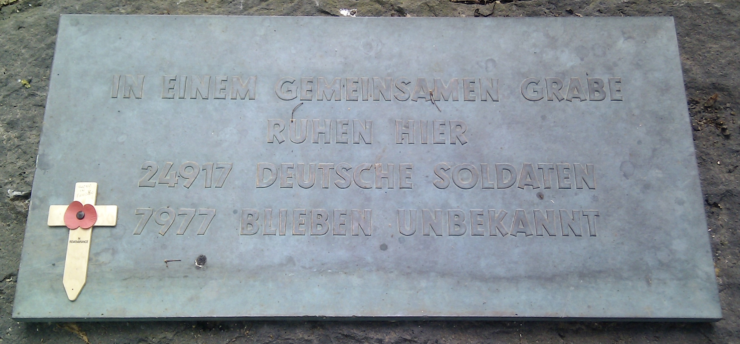 The Langemark German Cemetery - mass grave plaque, Flanders, Belgium.